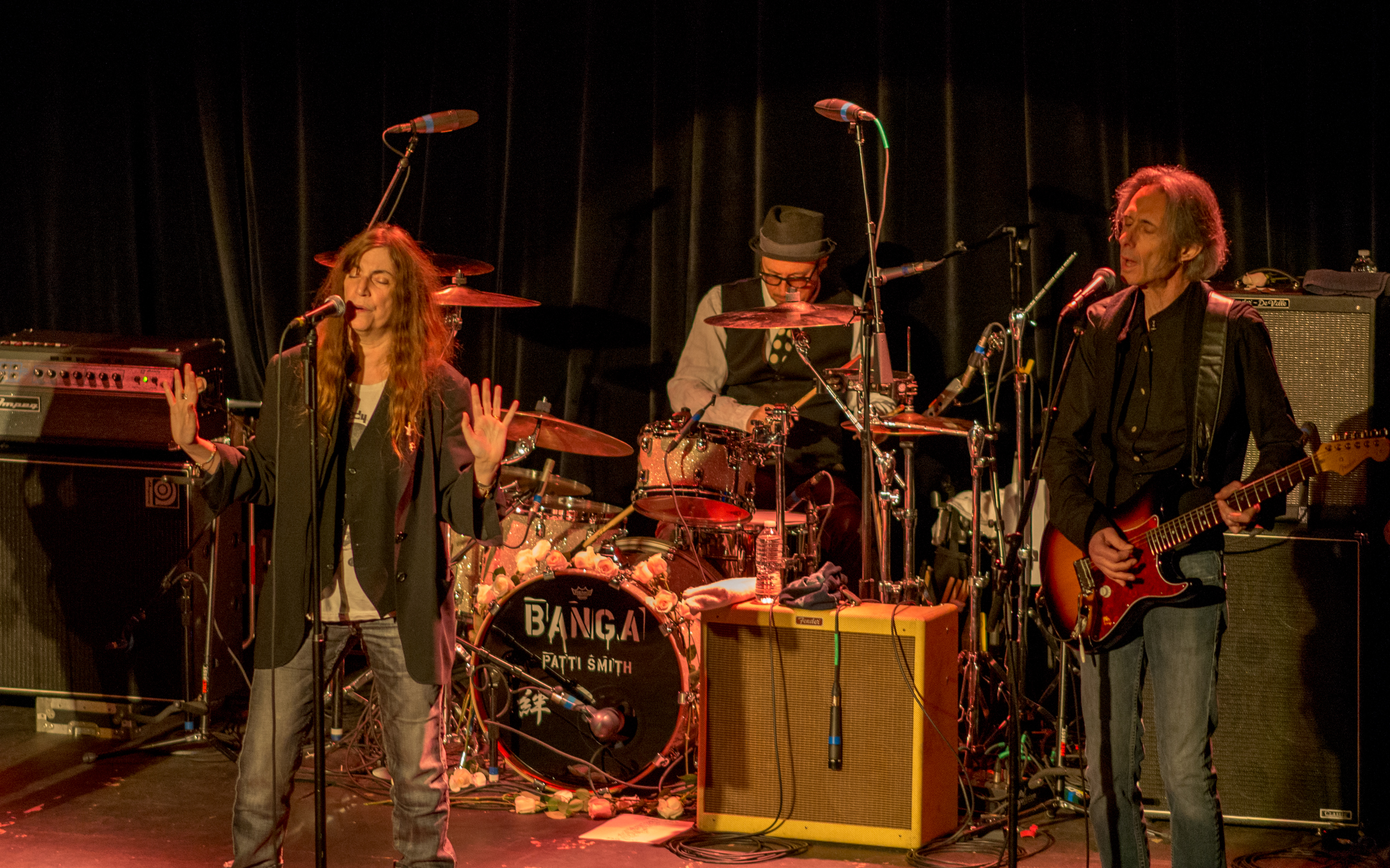 Patti Smith performing at Neptune Theater, Seattle.